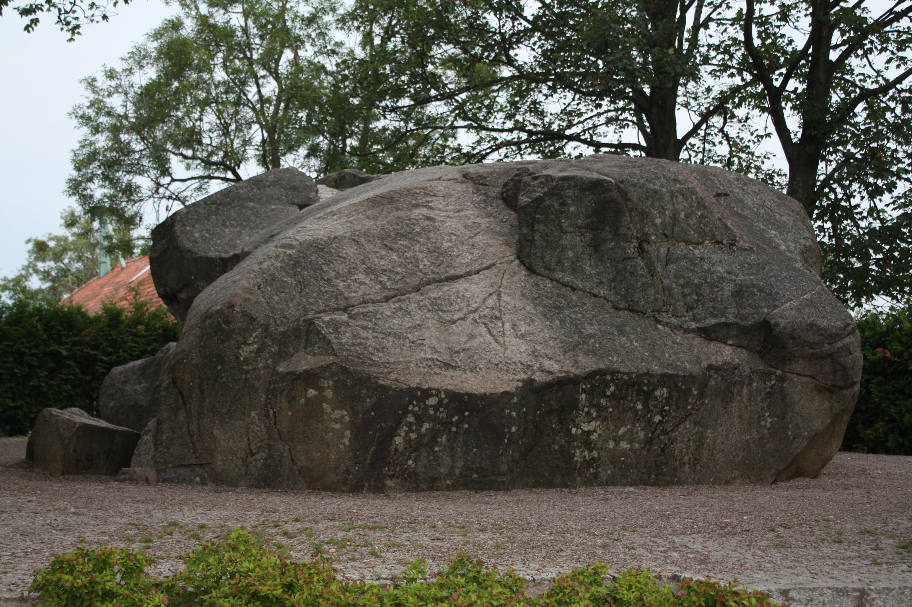 This photo of Warmian-Masurian Voivodeship was taken during Wikiexpedition 2012 set up by Wikimedia Polska Association.You can see all photographs in category Wikiekspedycja 2012. The making of this document was supported by Wikimedia Polska.